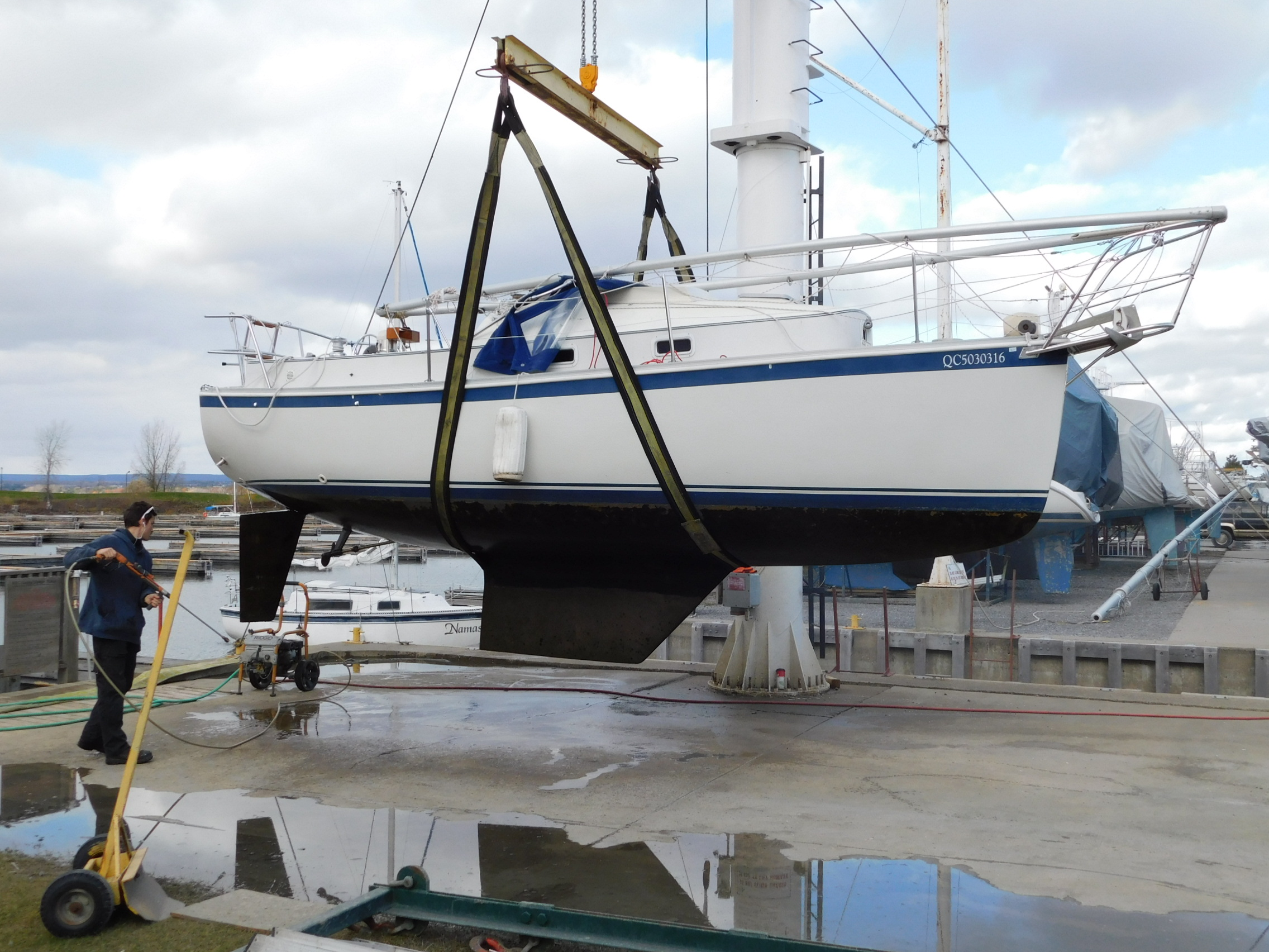 A Nonsuch 22 sailboat named Sweetie Pie V on the dock crane, being power-washed after removal from the river, showing the keel and rudder arrangement.